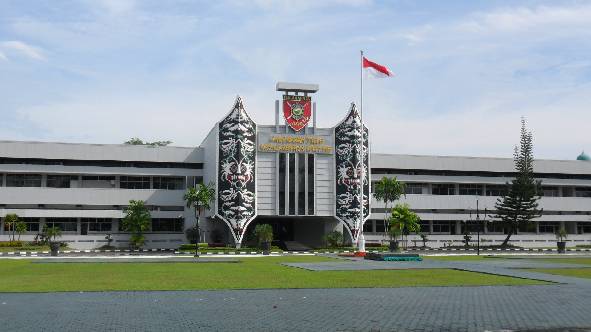 Military Area Command Headquarters VI/Mulawarman in Balikpapan city, East Kalimantan, Indonesia.